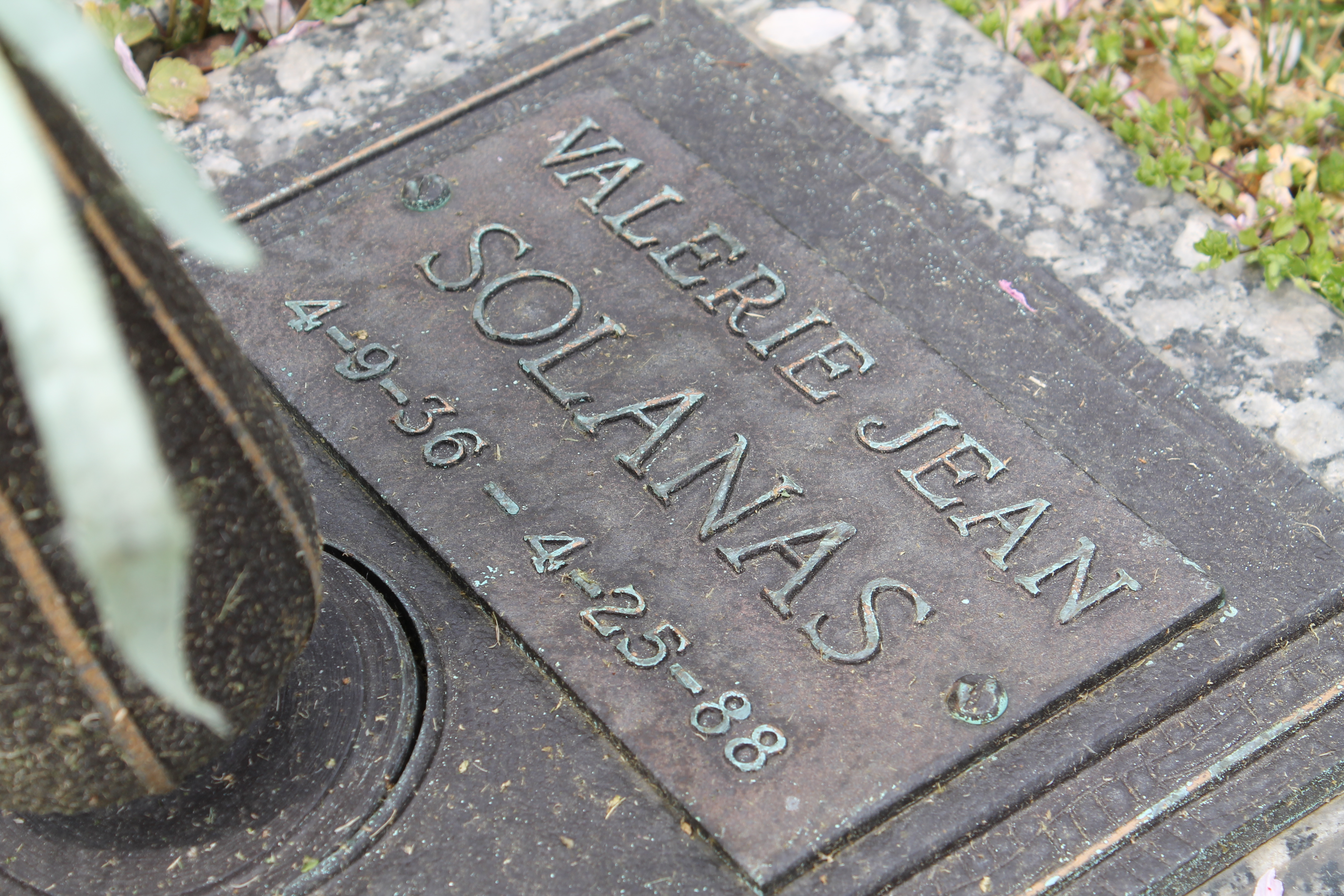 The grave of Valerie Jean Solanas at Saint Marys Catholic Church Cemetery, Fairfax County, Virginia. 2012.